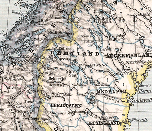 Historical map of Jämtland, Härjedalen and their surroundings